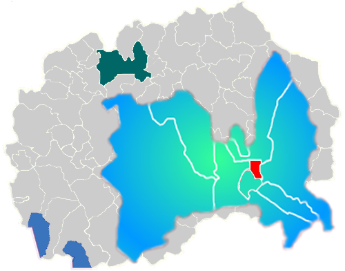 Map of Čair municipality.